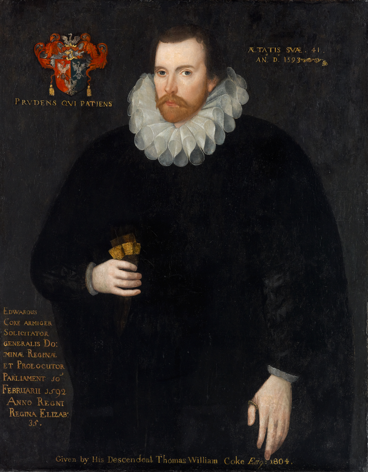 Sir Edward Coke (1552-1634), 12 3/4 in. x 9 in. (324 mm x 229 mm), More information